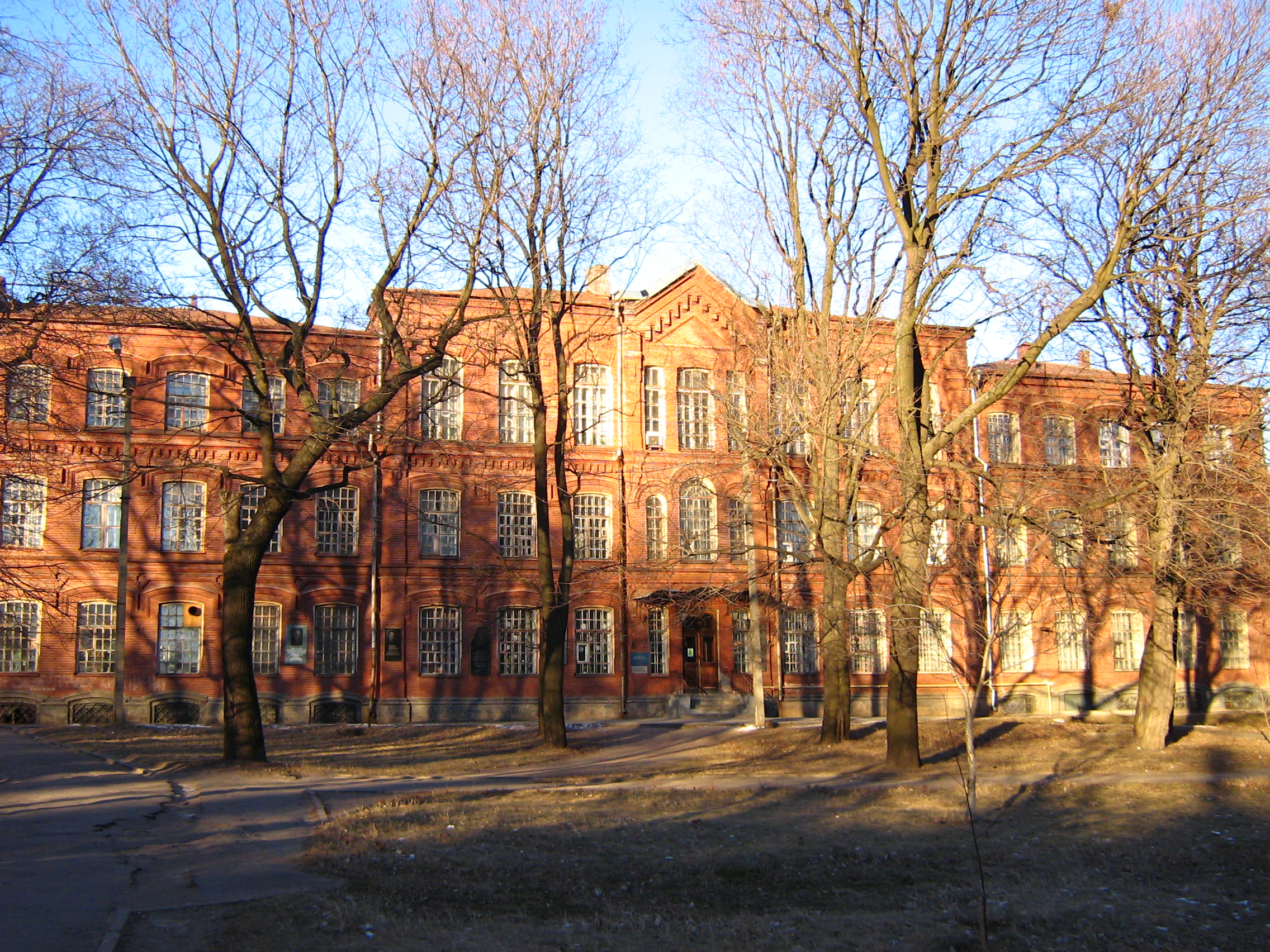 Technical Corps Kharkiv Polytechnic Institute. This is one of the most beautiful buildings of the institute.